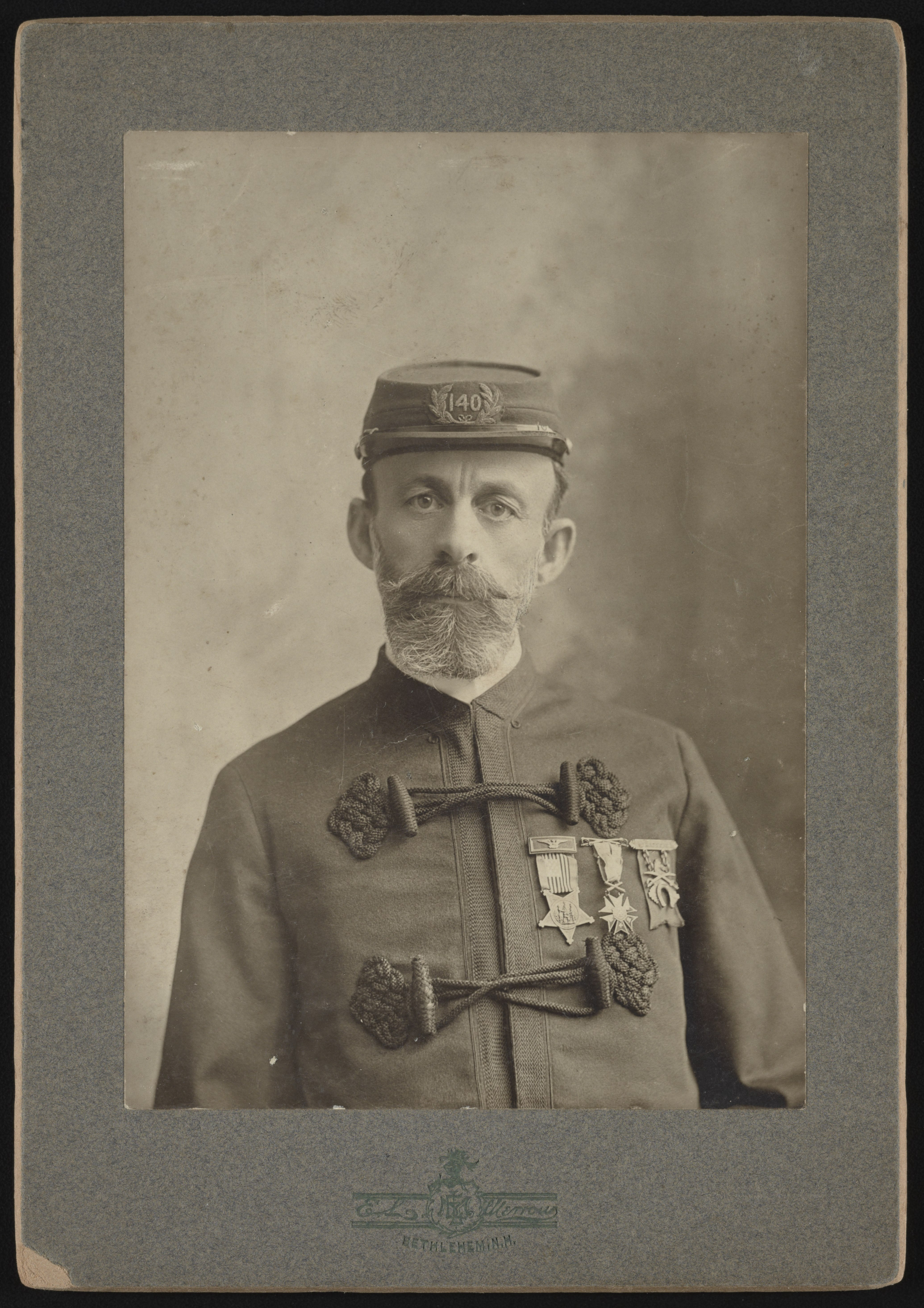 Title: Civil War veteran Henry Thurlow Bartlett] / E.L. Merrow, Bethlehem, N.H Abstract/medium: 1 photograph : gelatin silver print ; sheet 14 x 10 cm, mount 18 x 13 cm.